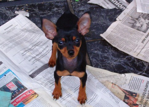 She´s my dog called Mora, she´s an Miniature Pinscher